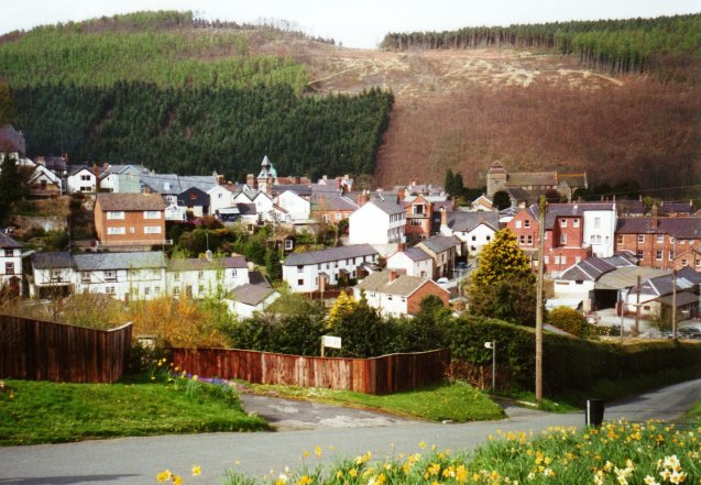 Descent into Knighton For northbound walkers on Offa's Dyke Path, this sight is a welcome relief as it probably means end of the day. But they can also see that Panpunton Hill behind the town will be a stiff climb first thing in the morning.